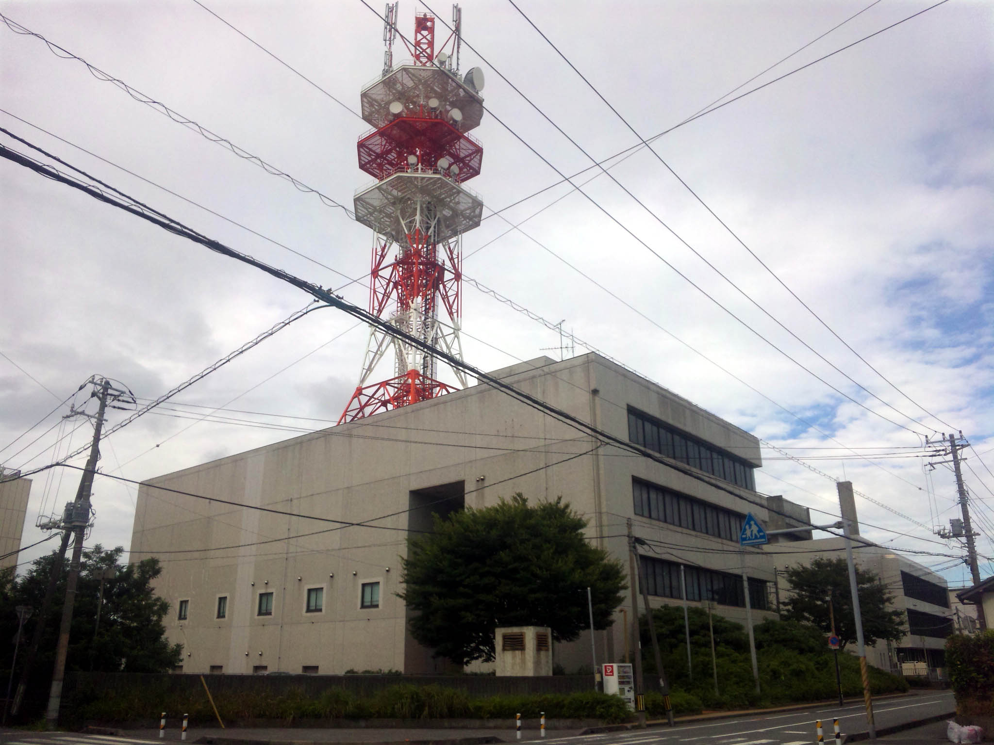 NTT EAST Kisaradu